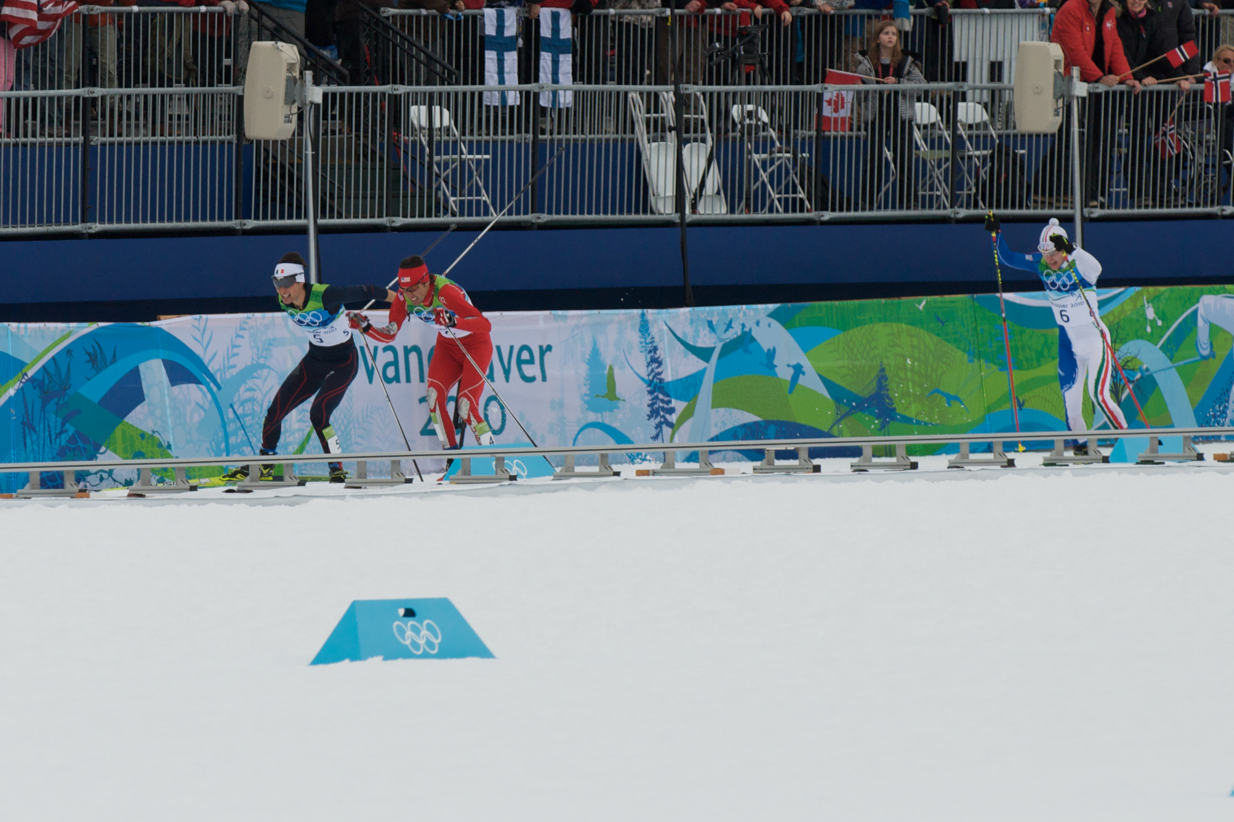 France's Jason Lamy Chappuis passes American Johnny Spillane in the final 75 meters to win the Men's Nordic Combined Gold Medal at the 2010 Winter Olympics. Italy's Alessandro Pittin finished third.